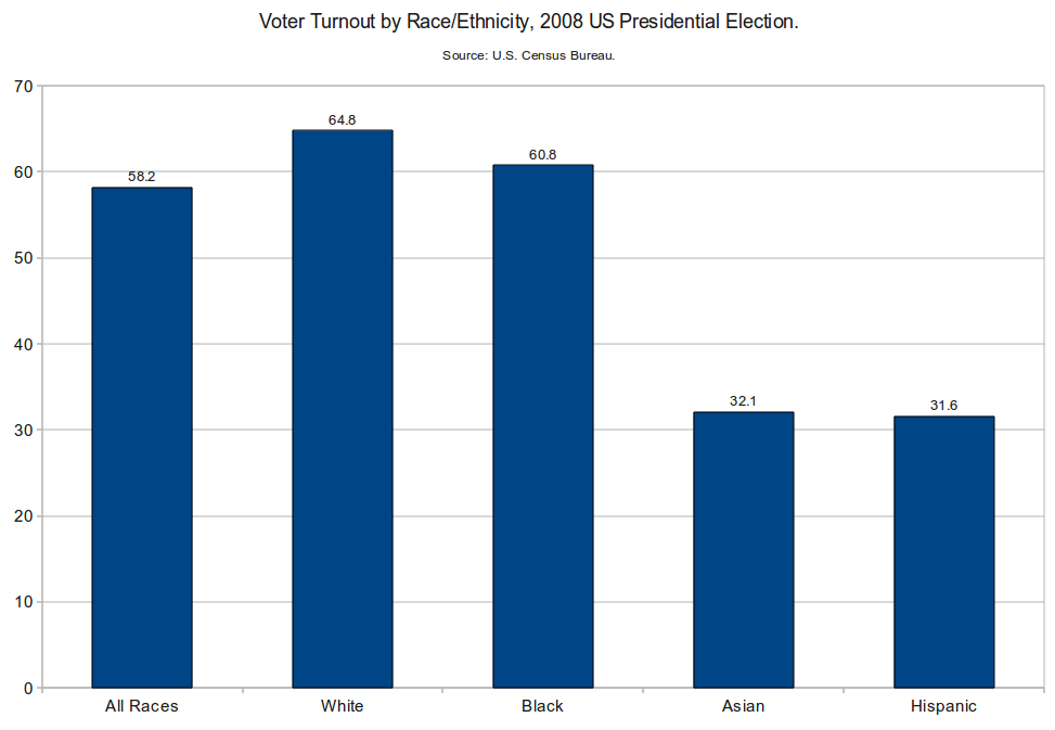 This is a chart illustrating voter turnout in the 2008 U.S. Presidential Election by race/ethnicity. The data come from the U.S. Census Bureau.